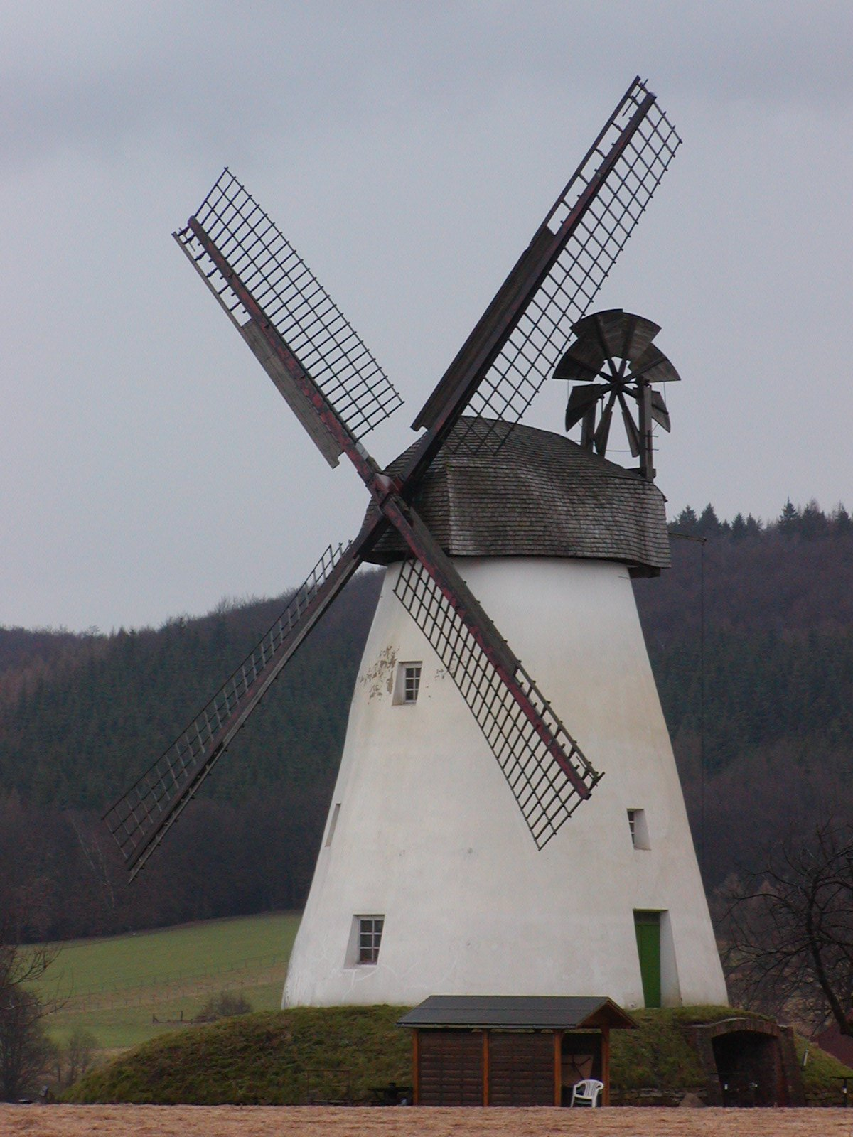 Windmill in Hüllhorst, Minden-Lübbecke, North Rhine-Westphalia, Germany.